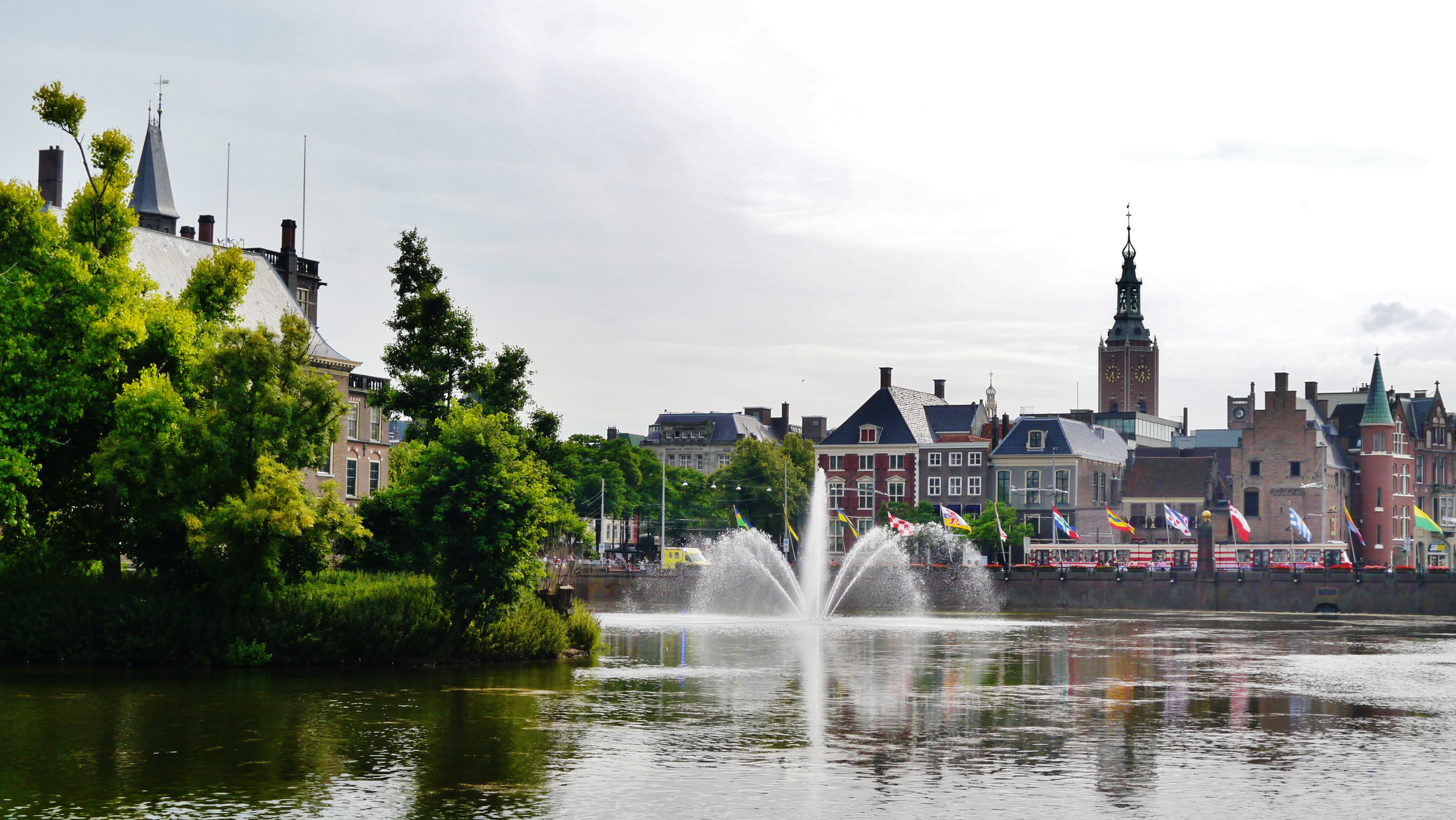 Hofvijver of the Binnenhof, The Hague, Province of South Holland, Netherlands